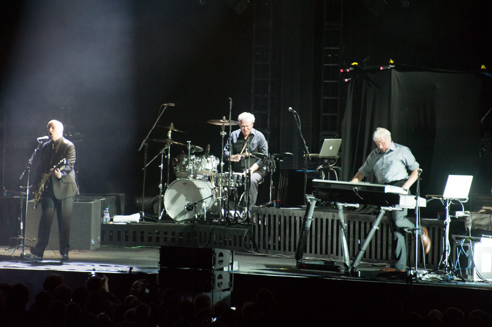 Ultravox playing concert at The O₂ in line with Simple Minds "Greatest Hits" tour, London